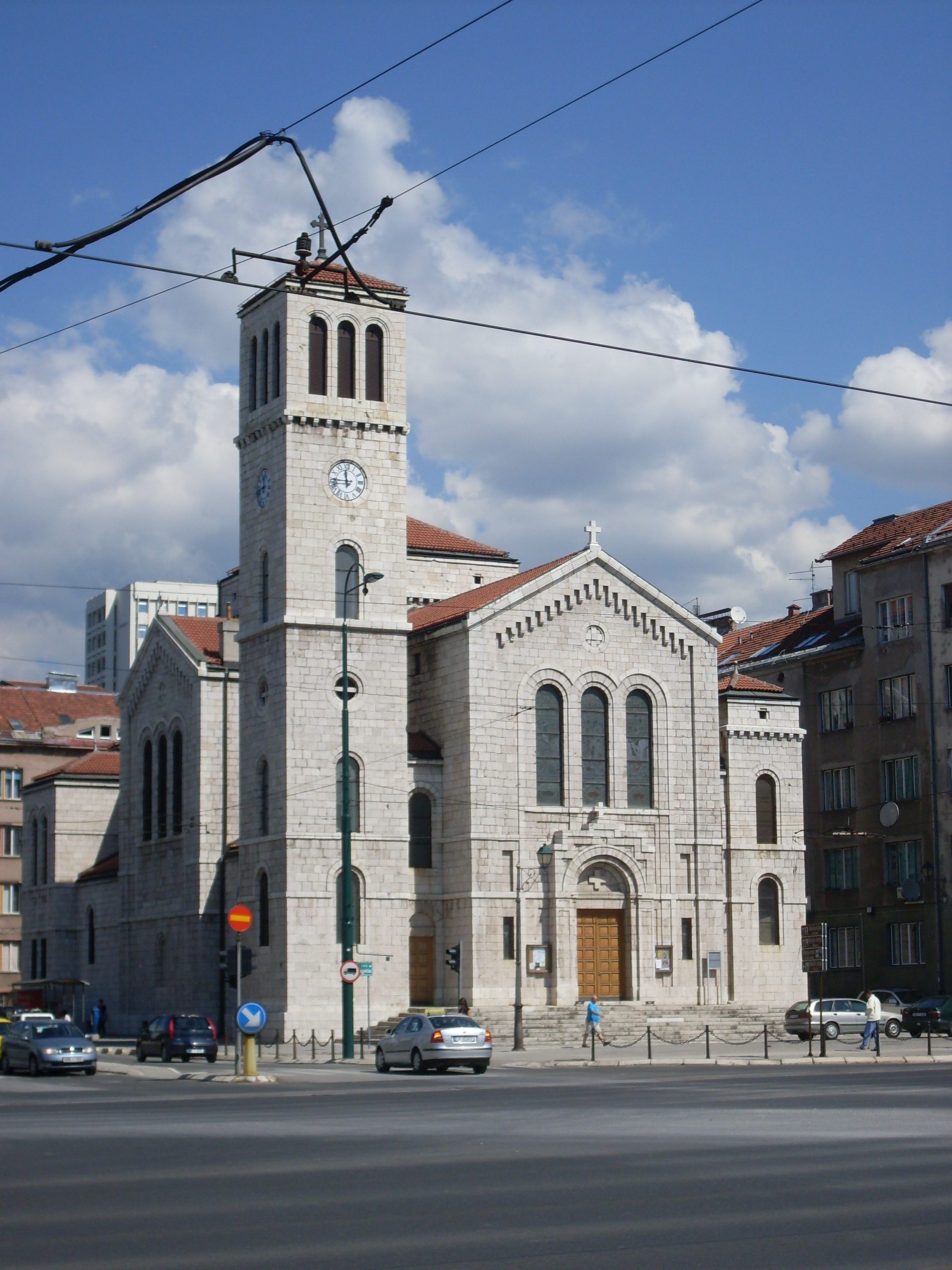 Saint Joseph church in Sarajevo